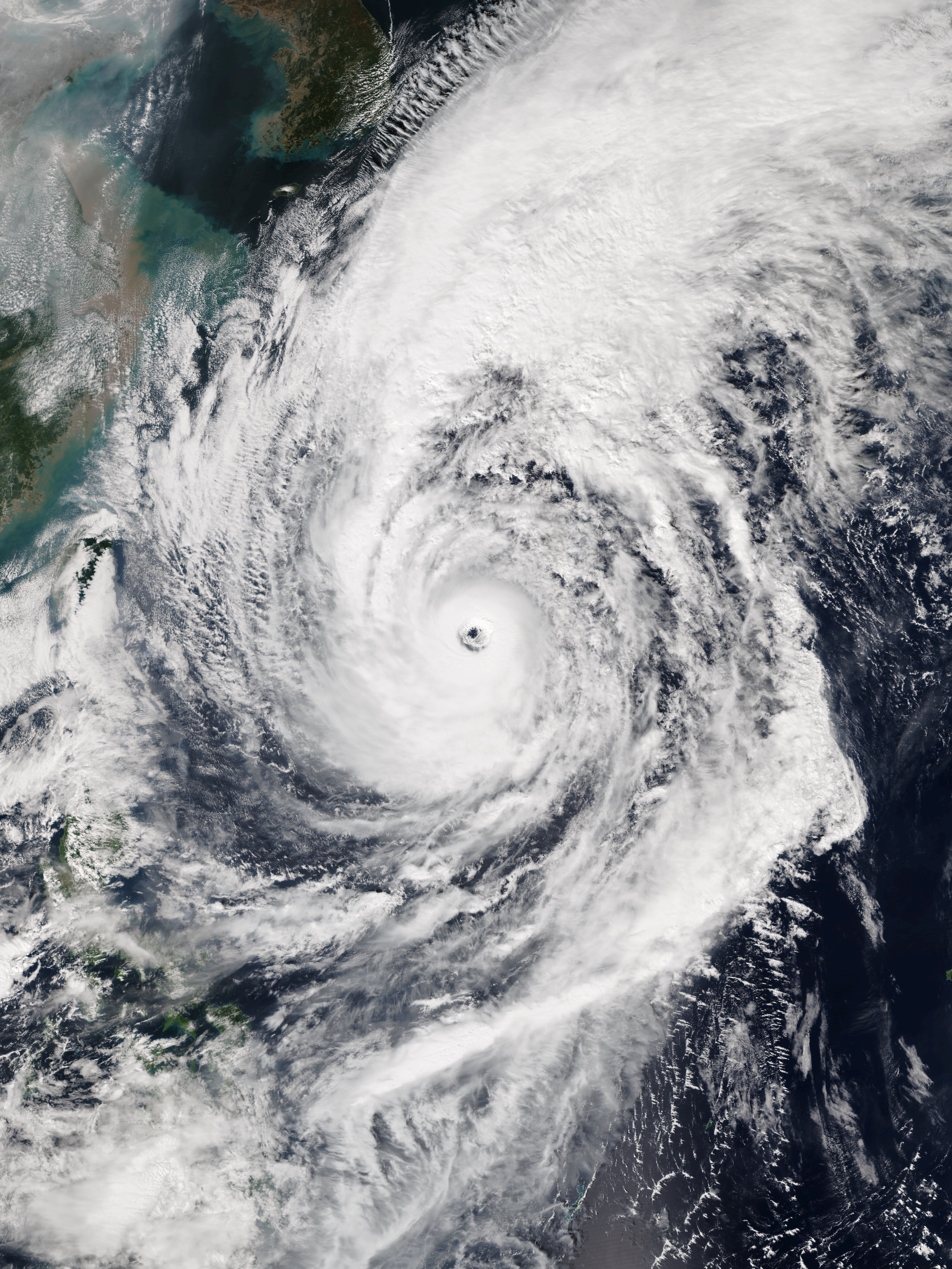 Typhoon Lan at peak intensity on October 21, 2017, located to the southeast of the Ryukyu Islands.